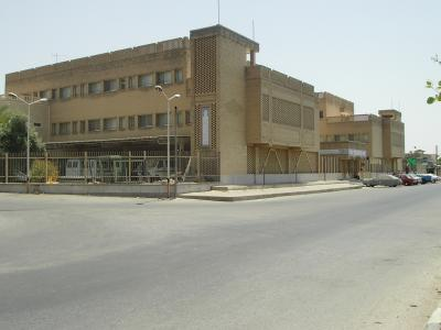 بیمارستان حضرت آیت الله العظمی نبوی